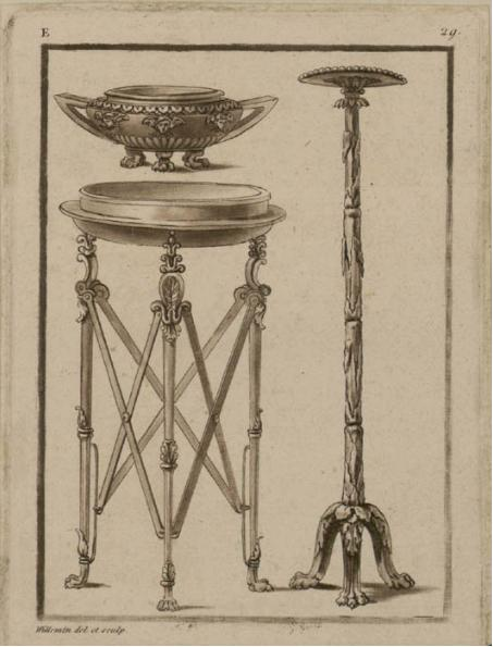 Etching, 14 x 10.2 cm, anc. coll. François Debret (1777-1850)